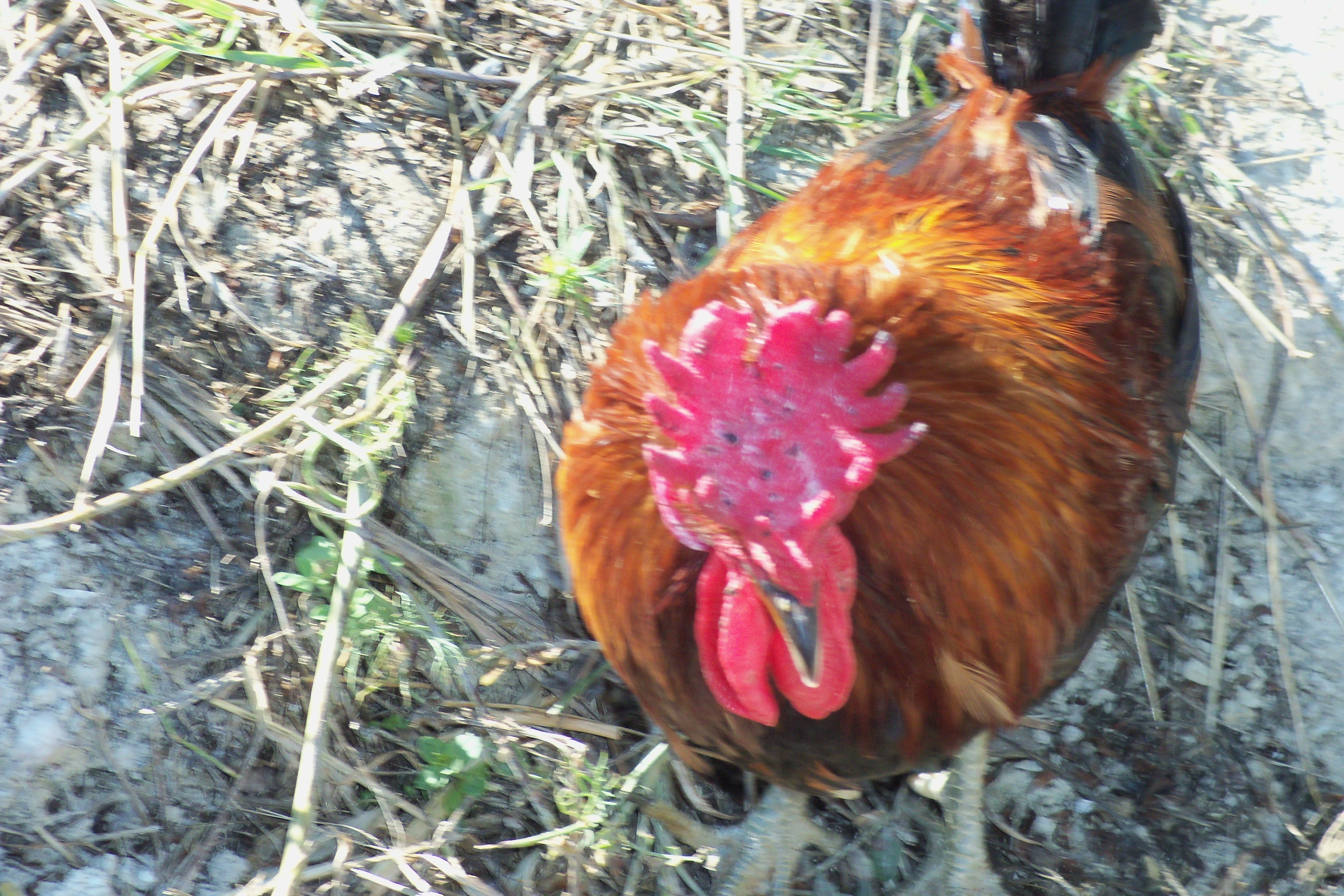 Cirasa